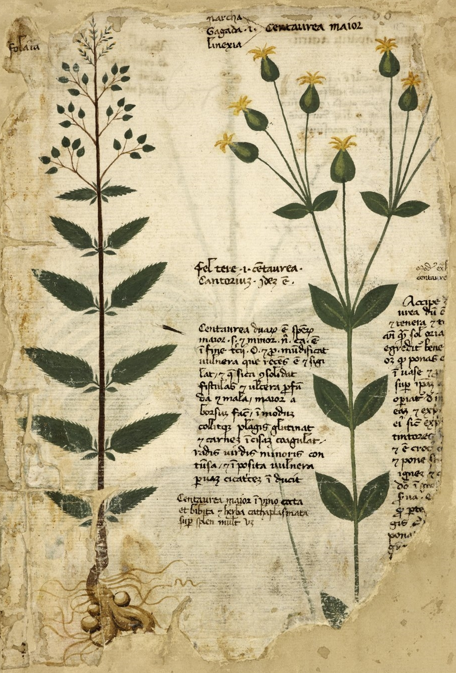 Page from a group of detached leaves related to Codex Bellunensis, BL MS Add. 41996 f. 113r